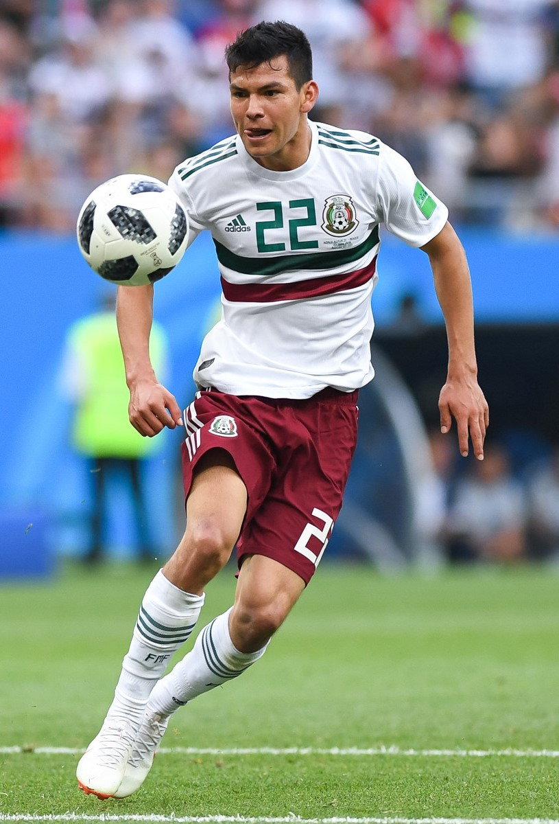 Hirving Lozano